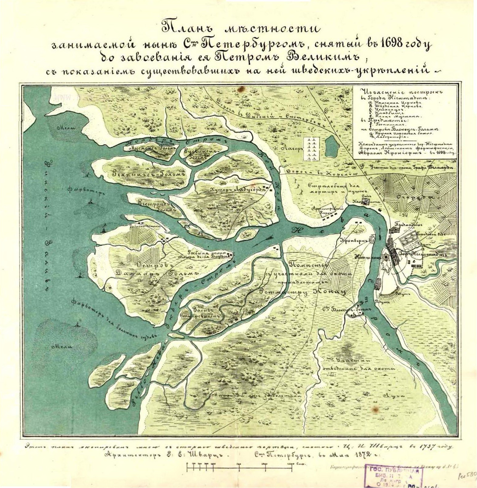 Map of Saint Petersburg (Russia)